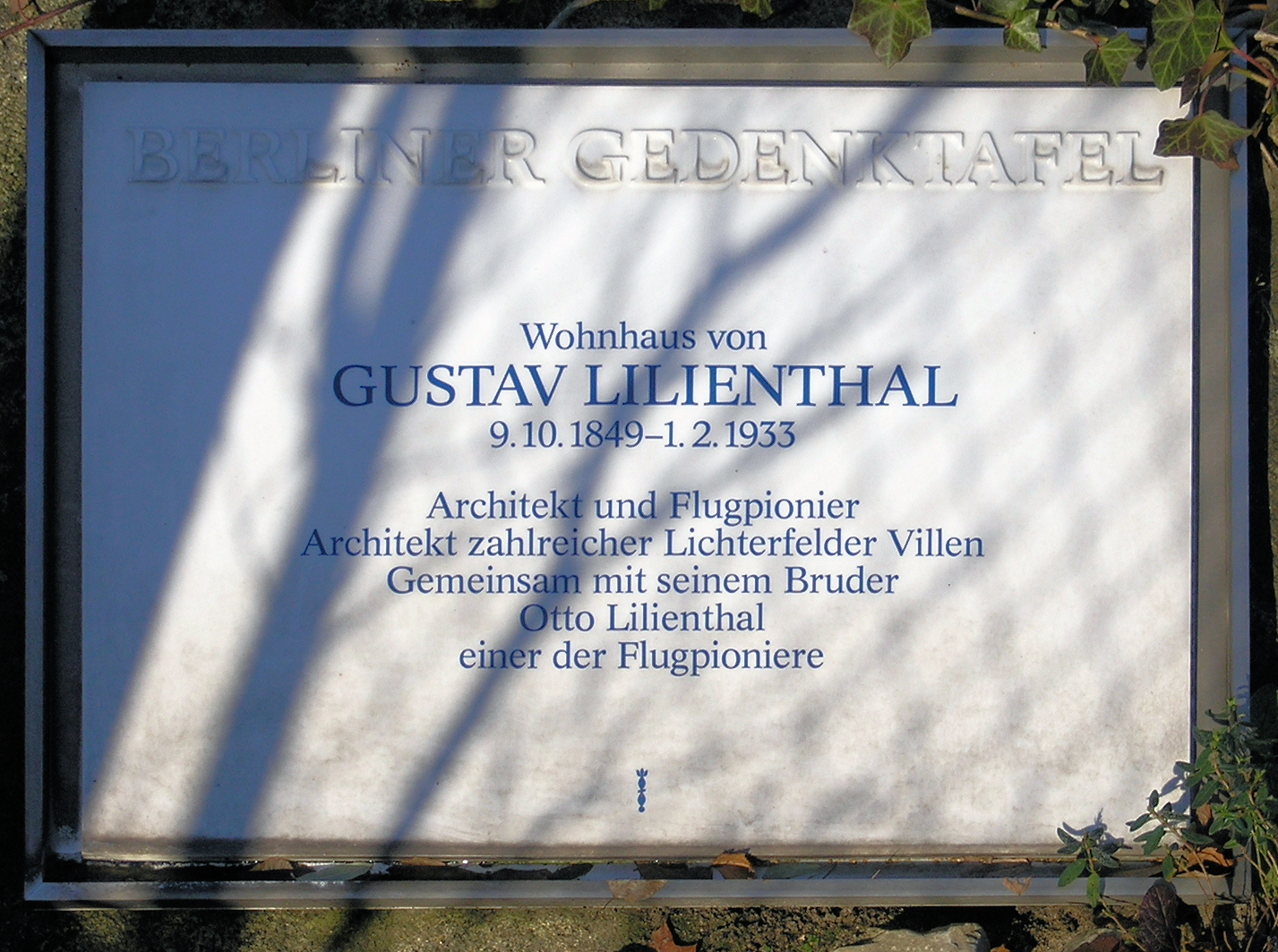 Berlin memorial plaque, Gustav Lilienthal, Marthastraße 5, Berlin-Lichterfelde, Germany Koordinate:52°26′10″N 13°18′3″E / 52.43611°N 13.30083°E